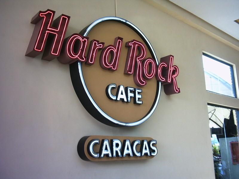 Hard Rock Cafe Caracas.